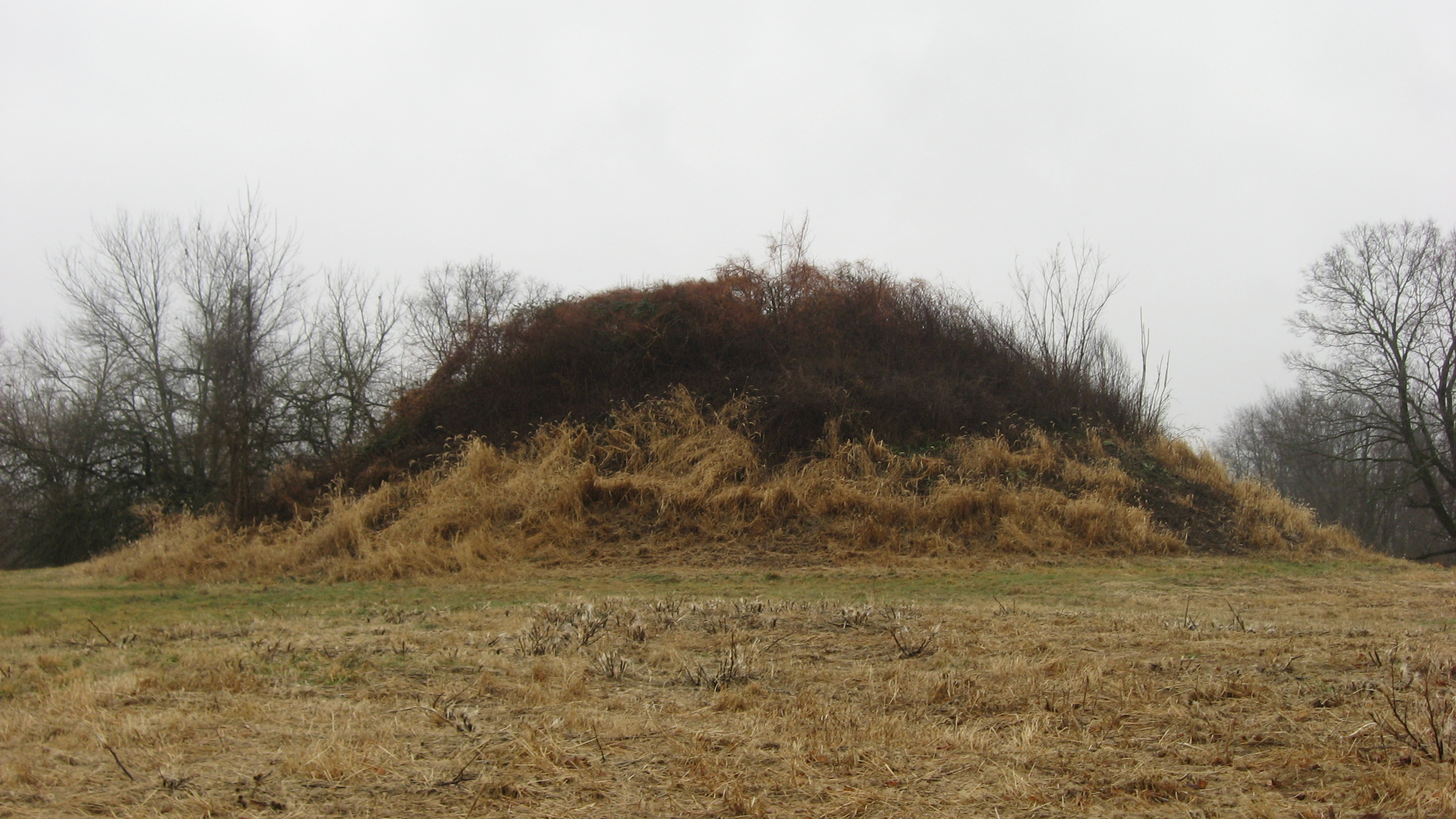 Northern side of the Dixon Mound, located off South Street in Homer, Ohio, United States. Built by the prehistoric Adena culture, it is listed on the National Register of Historic Places.